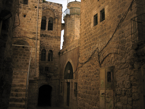 Ibn Othman Mosque in Old town - Hebron, Palestine